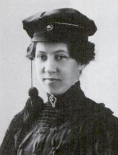 Ellen Gleditsch (December 29, 1879 - June 5, 1968) graduation photo